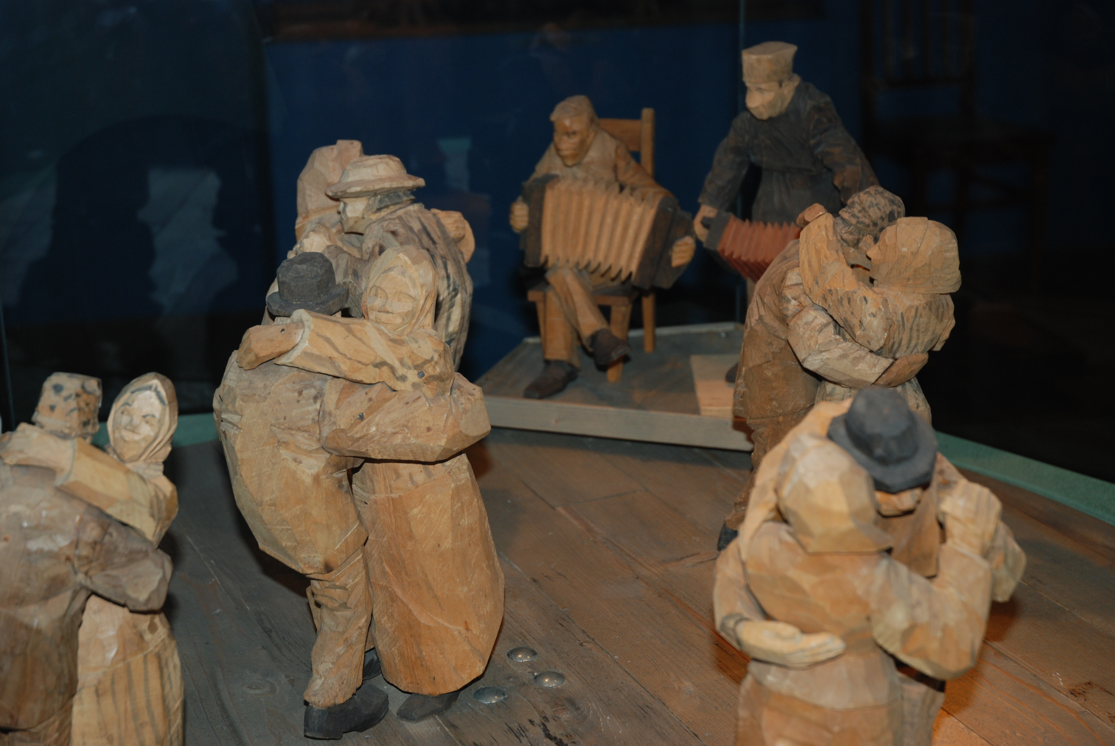 Axel Peterson´s (Doderhultarn´s)"The dance floor"